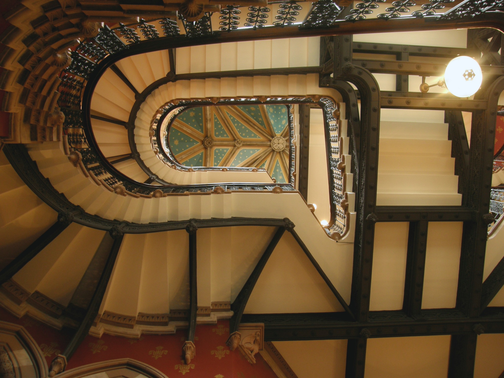 Gilbert Scott's magnificent staircase inside the St. Pancras Hotel, taken from the ground floor.